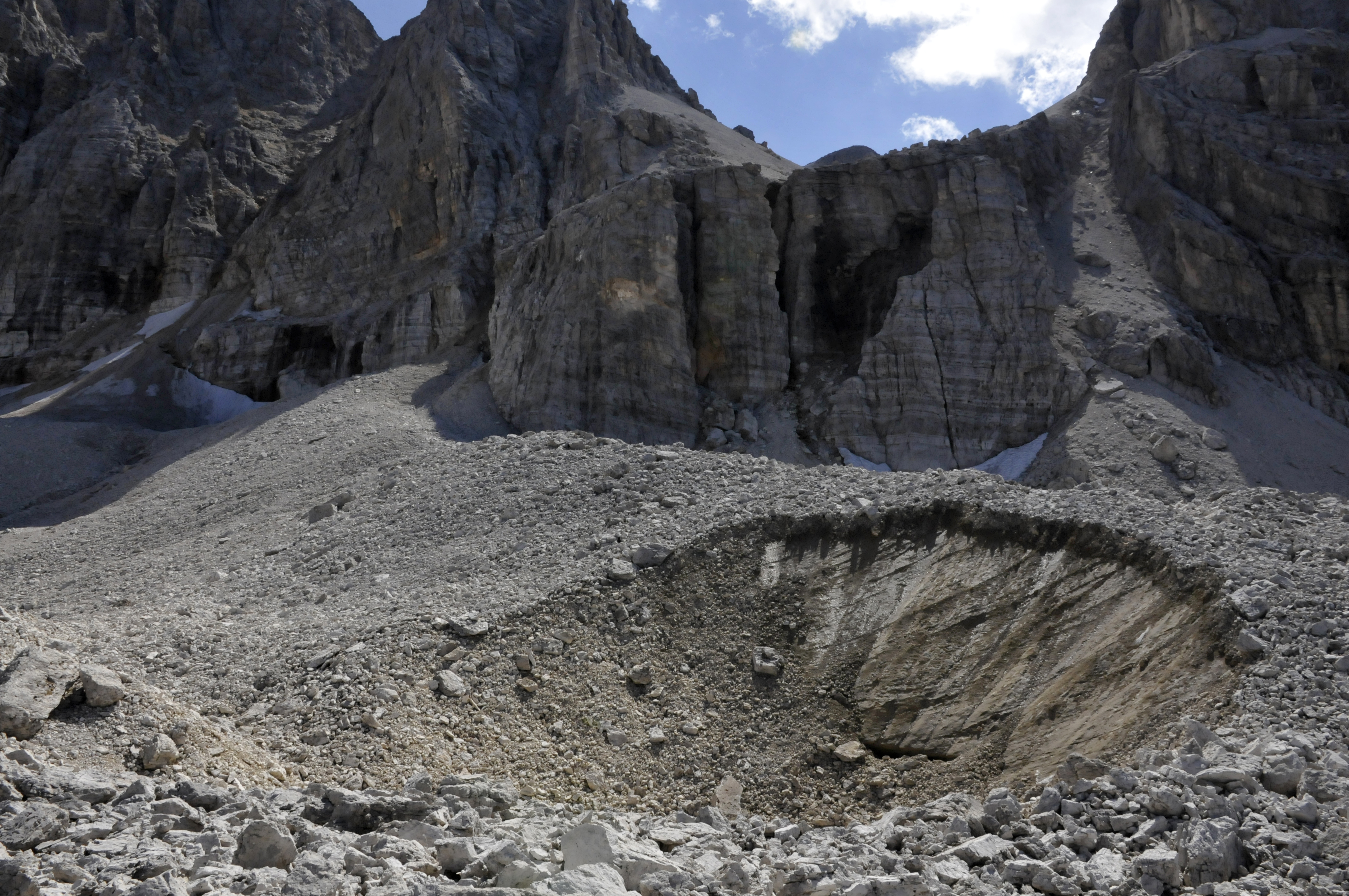 Crater on glacier near Lech dl Dragon formed very recently